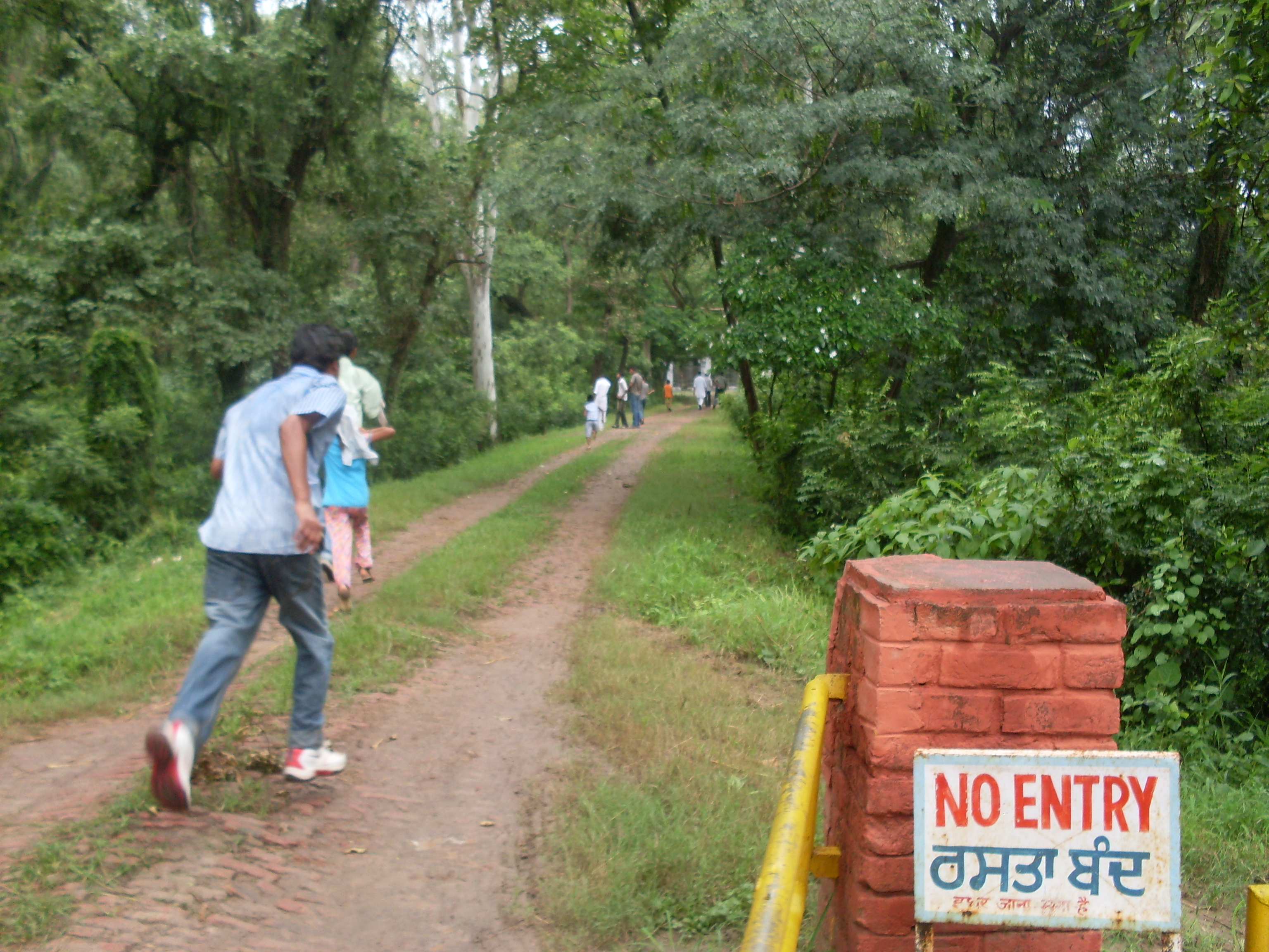 Chattbir Zoo is located in Chandigarh, Punjab, India. Visiting it with my parents, I got to observe reverse psychology and some degree of herd behaviour. There’s a small path that deviates from the main track of the zoo, and here there is a clear marker that says in red “NO ENTRY”. The gate is not locked and many people are going through as if it’s the normal path. Guess what? Most of the crowd is going through to see what’s on the other side of “NO ENTRY” gate. And those who didn’t decide on walking so much, couldn’t help but turn heads and asking those who were returning. And when some thinking person mentions the sign, people would say that since others are also going, so there must be something worthwhile (not thinking individually, but following the herd) and thus keep up the momentum of new visitors taking the place of old ones.